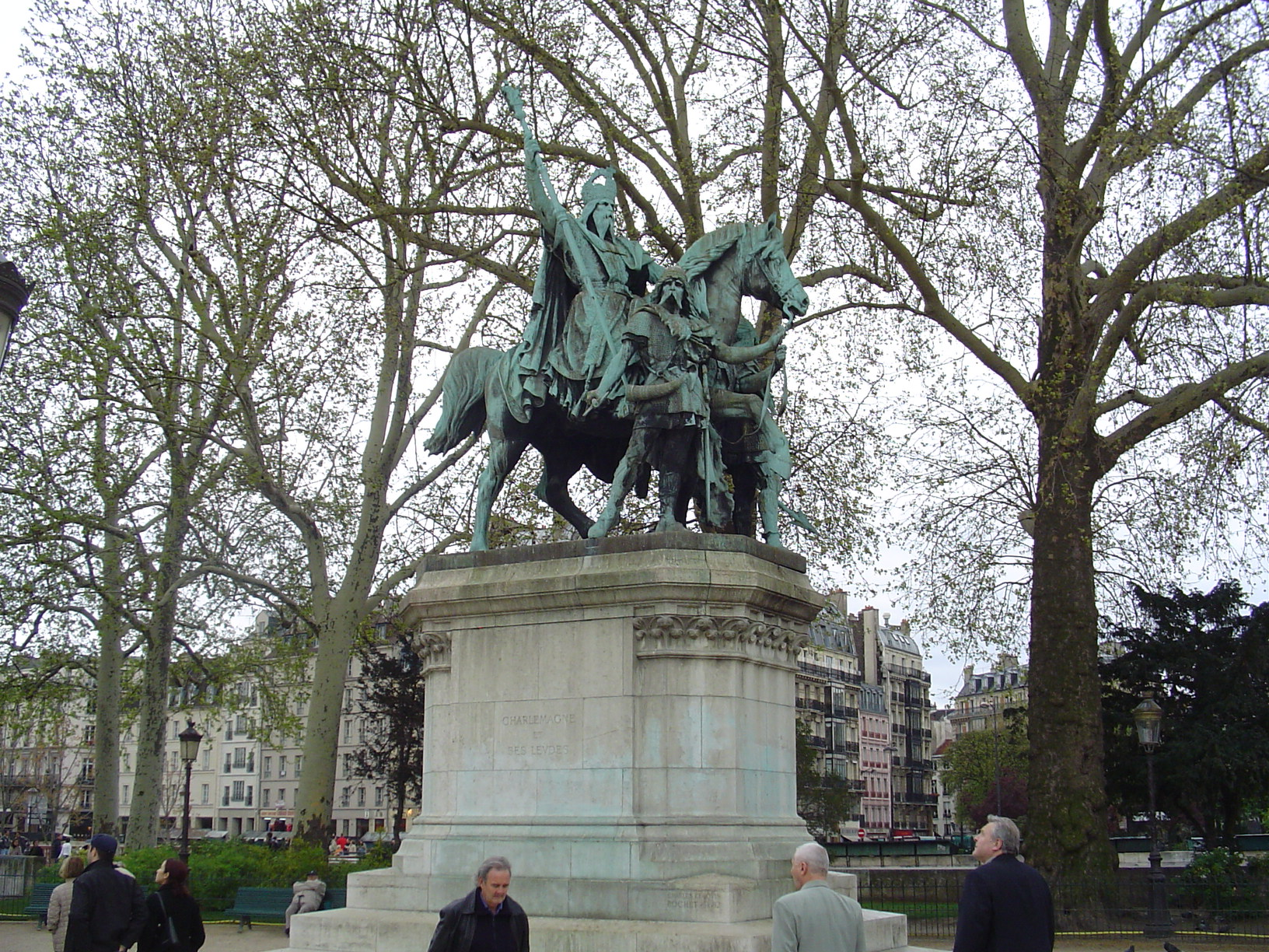 Statue of Charlemagne in front of the Notre-Dame cathedral in Paris.